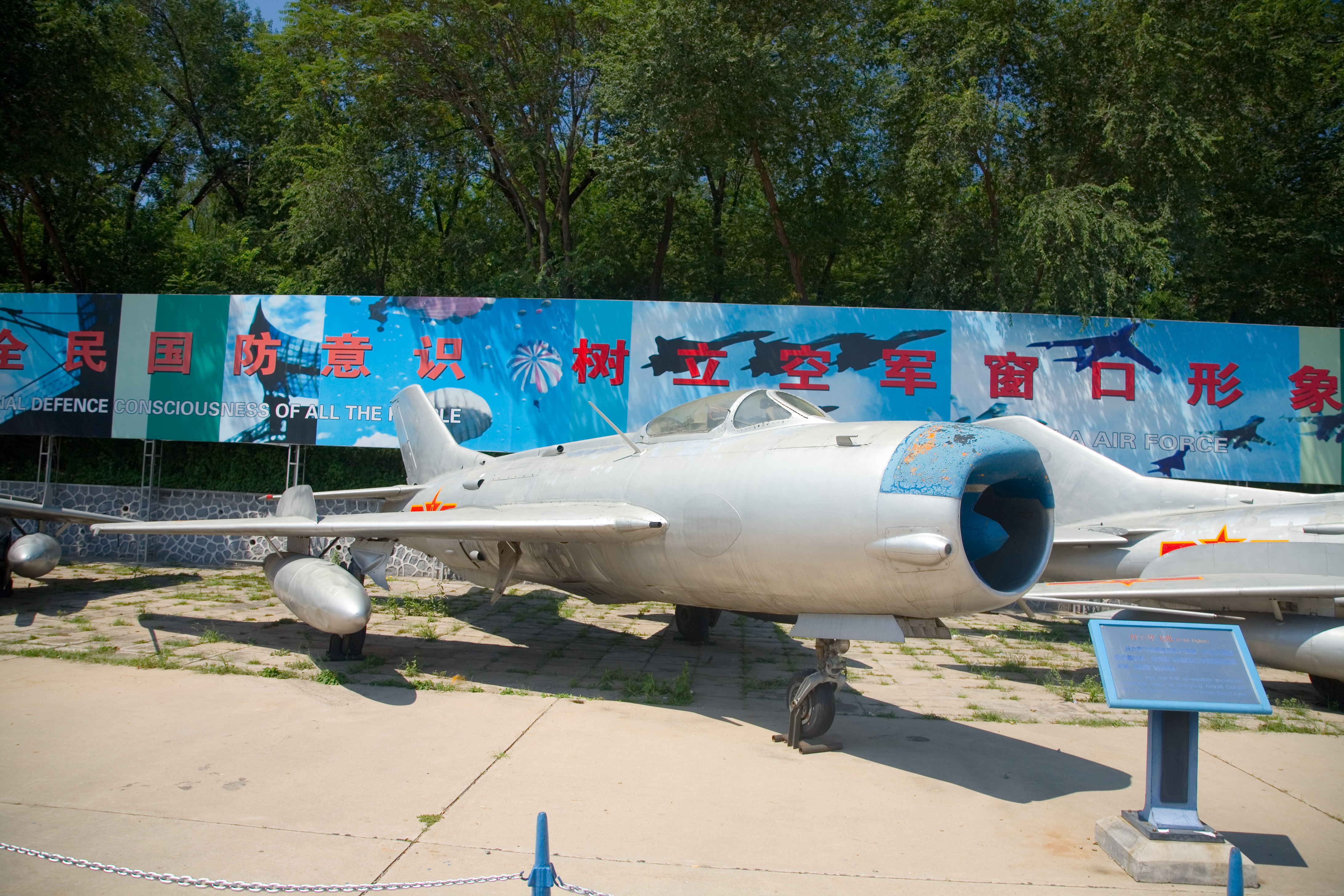 F-6A fighter at the China Aviation Museum